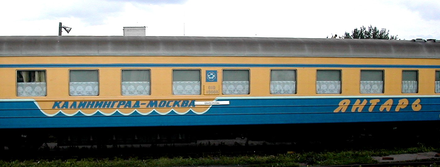 "Yantar" train's (Kaliningrad-Moscow) car at the Kalingrad Passazhirskyi main railway station.